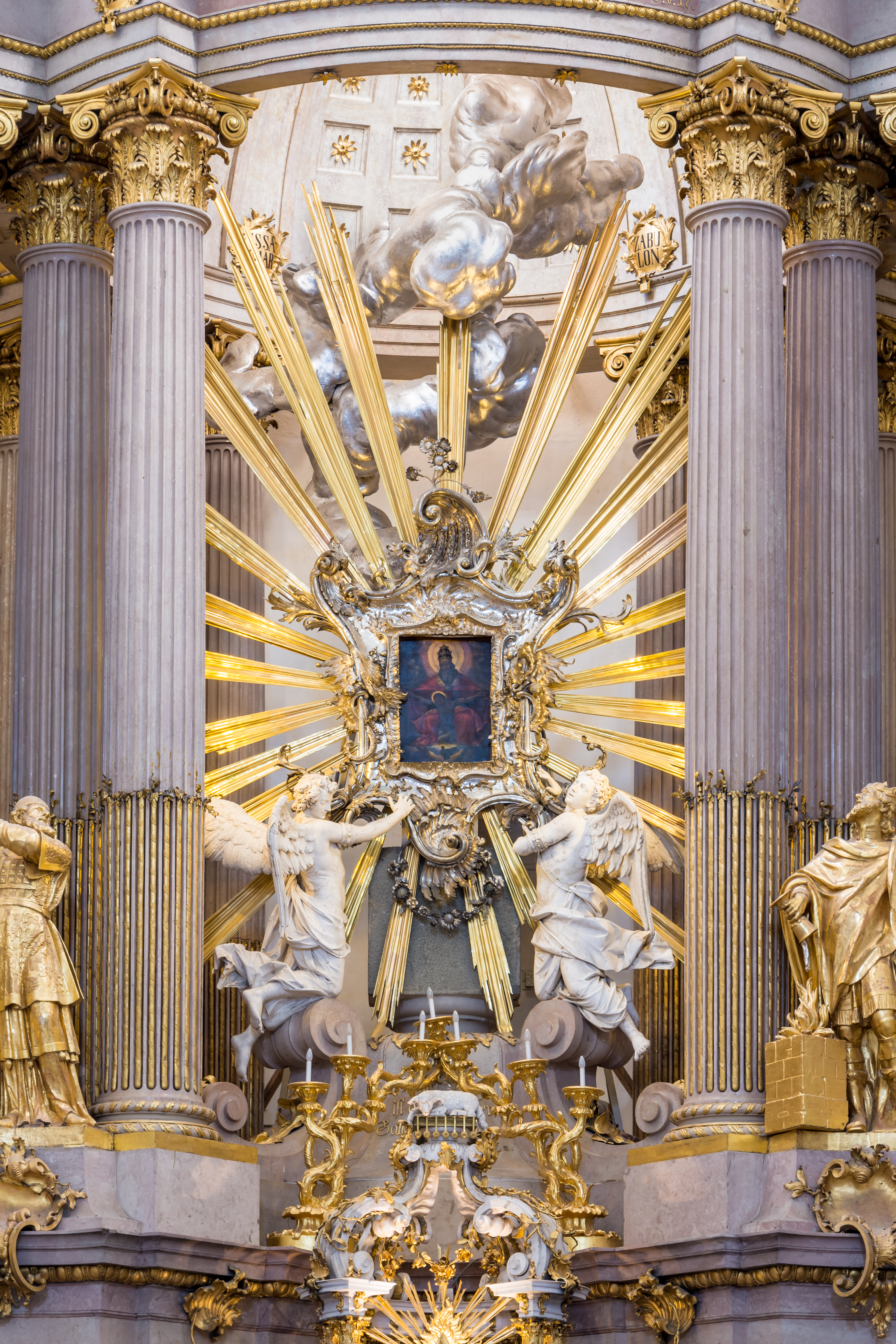 High altar with Image of Grace at Sonntagberg Basilica, Lower Austria